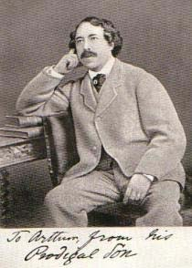 Depicted person: Sims Reeves – British opera singer